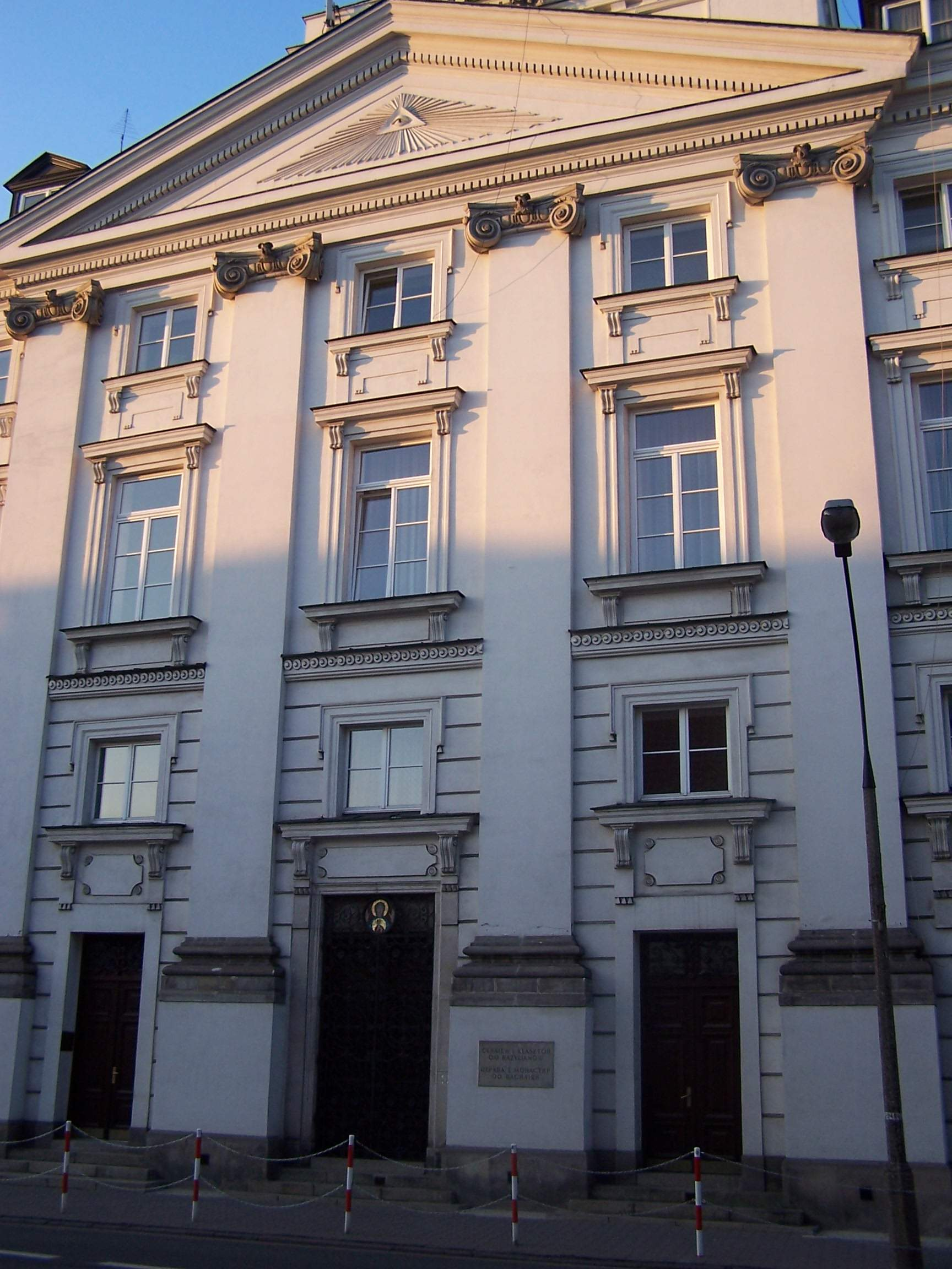 Greek Catholic (Uniate) church and monastery of the Basilian Friars at Warsaw's Miodowa Street. Eye of Providence (motive at the top). Warszawa, summer 2006. Photo taken by myself.